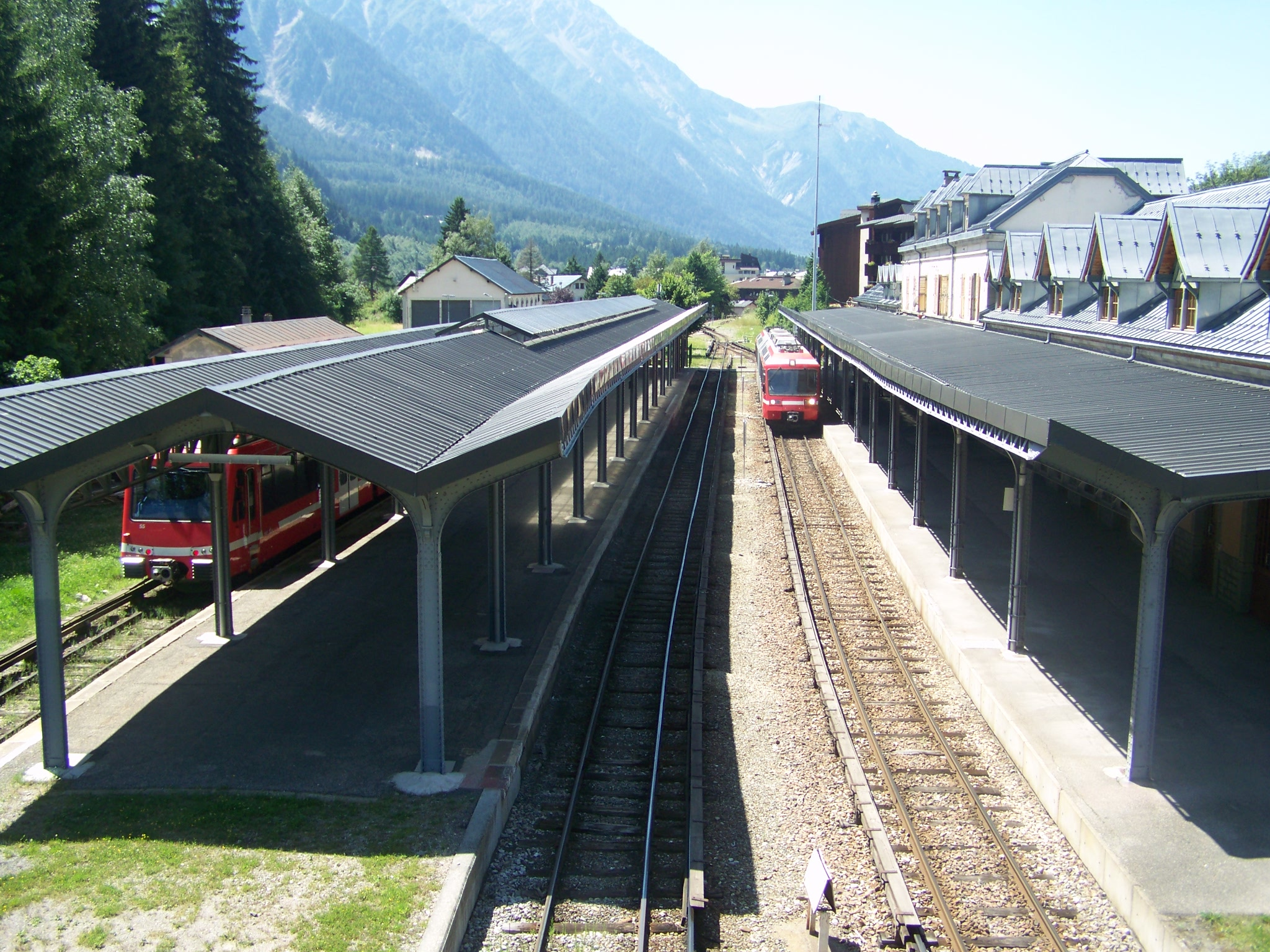 Tracks and platforms of Chamonix - Mont-Blanc railway station in Haute-Savoie, France. Can be seen the "third track" providing electrity to the engines rolling on this line.